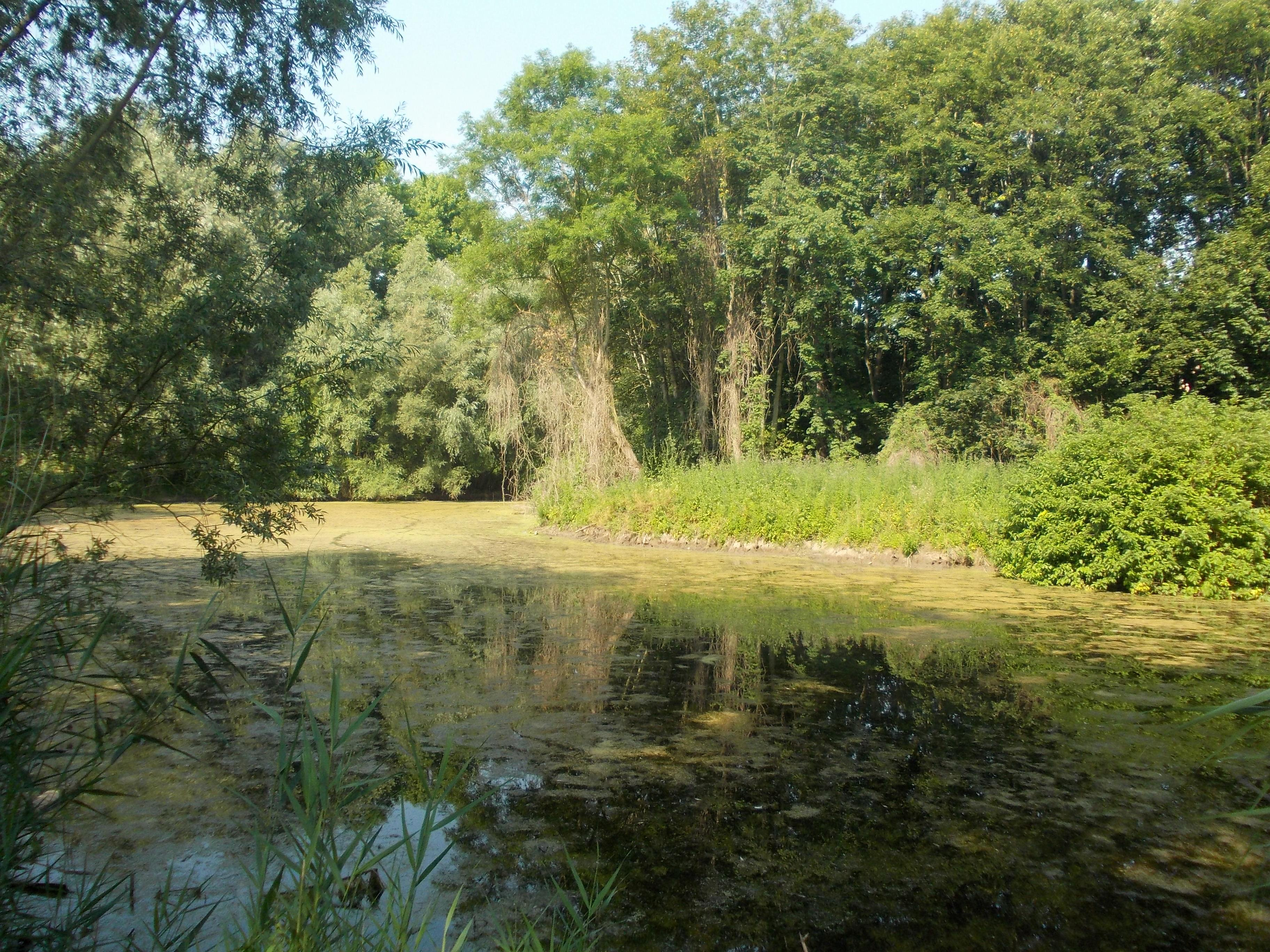 Pond on Pulverweiden Island in Halle/Saale (Saxony-Anhalt)